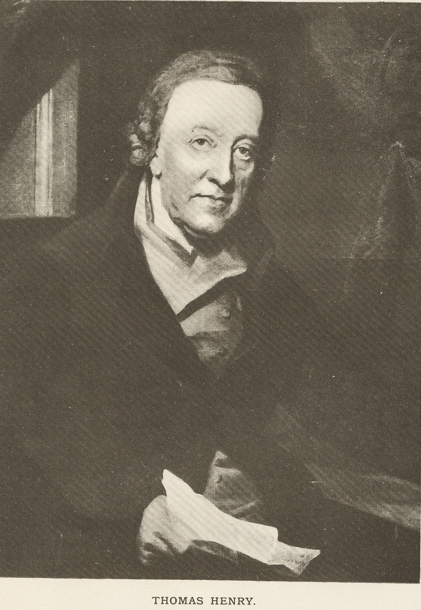 Thomas Henry (1734-1816) was an apothecary and chemist. He was appointed visiting apothecary to the Manchester Informary in 1789. He co-founded the Manchester Literary and Philosophical Society in 1781 and became its president in 1807. Artist and year of this painting are unknown. It was published in: Edward Mansfield Brockbank: (Sketches of the Lives and Work of) The Honorary Medical Staff of the Manchester Infirmary 1752 to 1830. University Press, Manchester 1904, picture inserted after page 72, according to the list of illustrations "from a portrait in oils in the posession of the Manchester Literal and Philosophical Society". Artist and year of the painting are not mentioned.